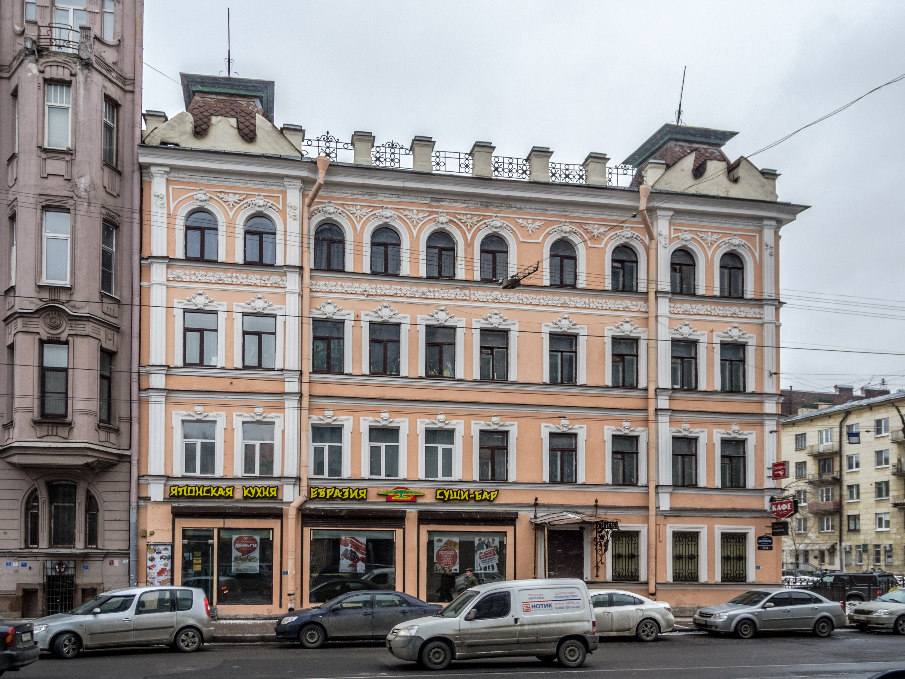 7, Dobroljubova avenue, Saint Petersburg